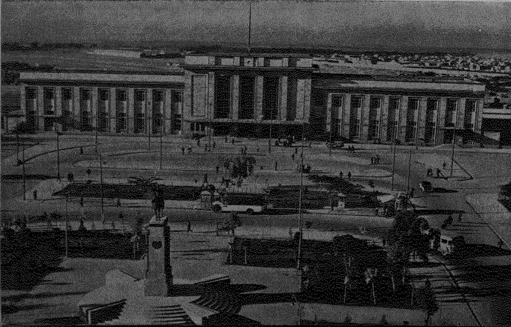 Central Railway Station Tehran, Iran